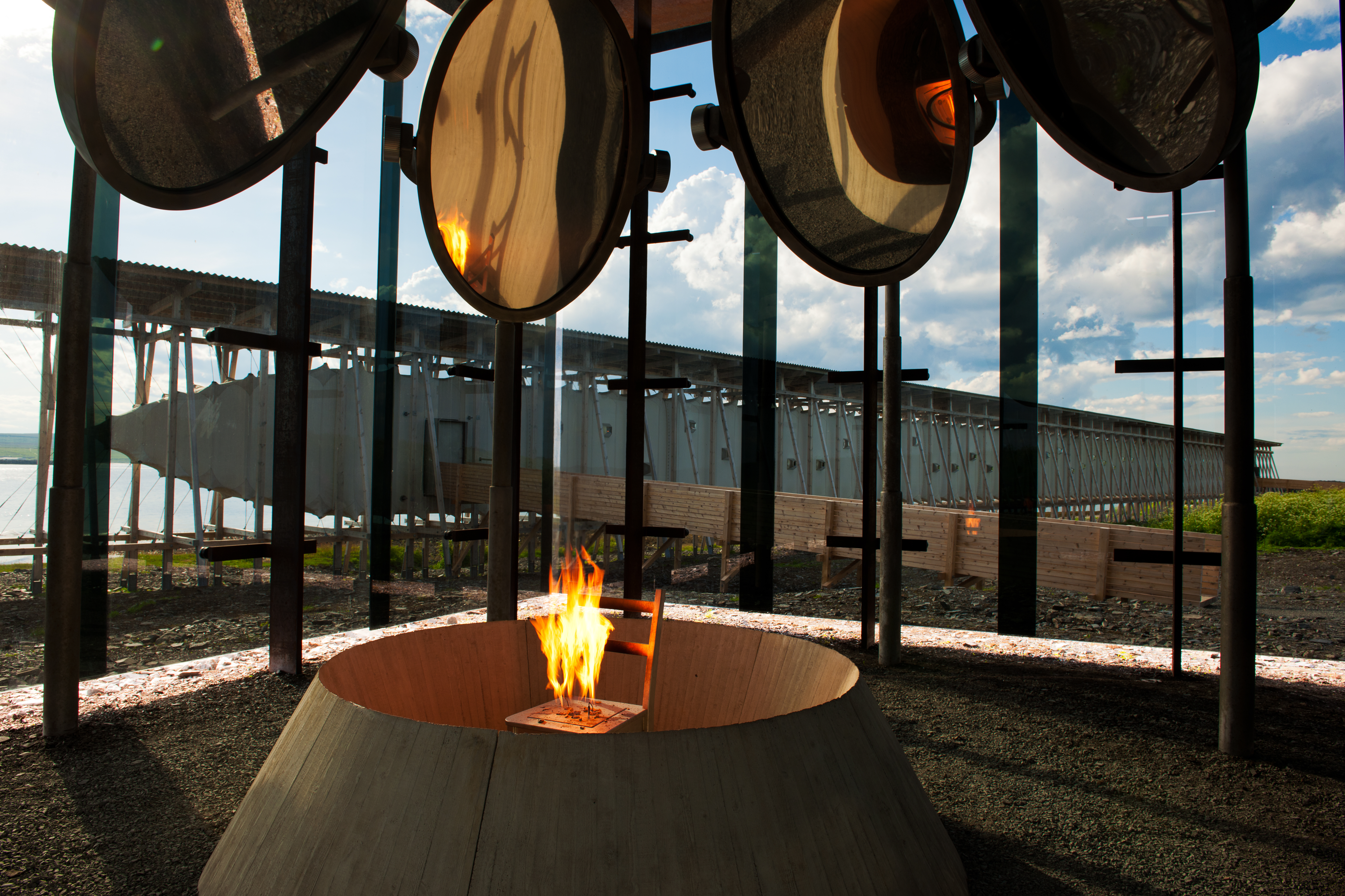 Steilneset Memorial in Vardø, Finnmark, Norway, commemorating the trial and execution in 1621 of 91 people for witchcraft. Installation by Louise Bourgeois.